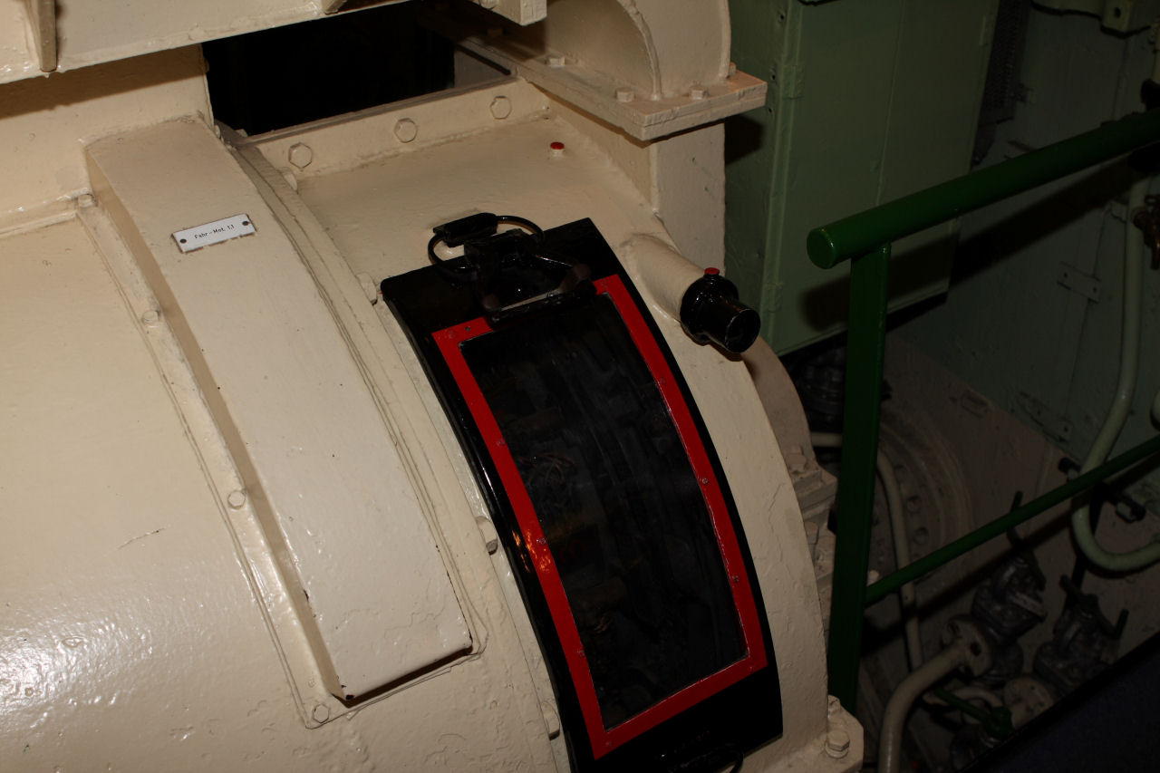 Electric engine of submarine Wilhelm Bauer (ex U 2540).